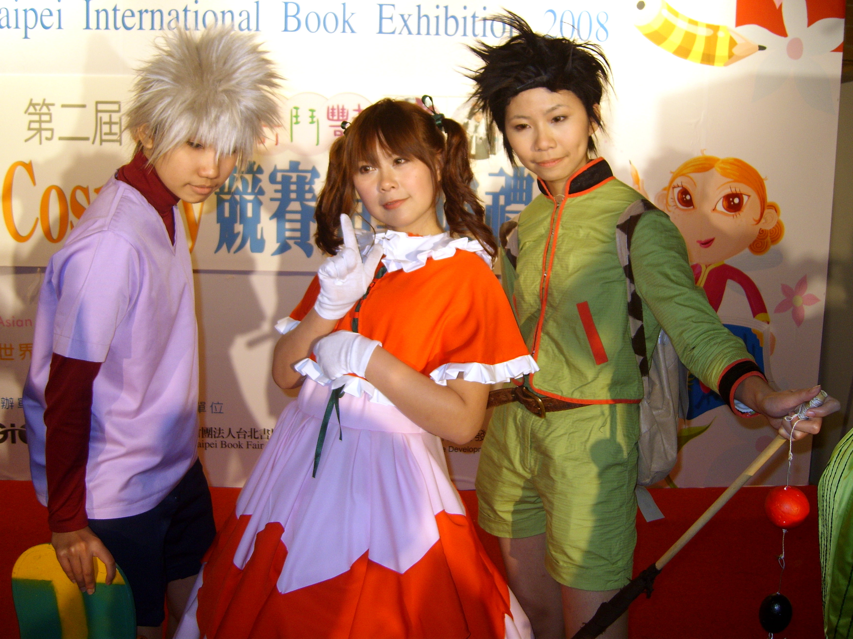 2008 Taipei International Book Exhibition - Comic Hall: Group Winner of the 2nd TIBE Cosplay Competition.